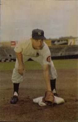 New York Yankees shortstop Jim Brideweser.